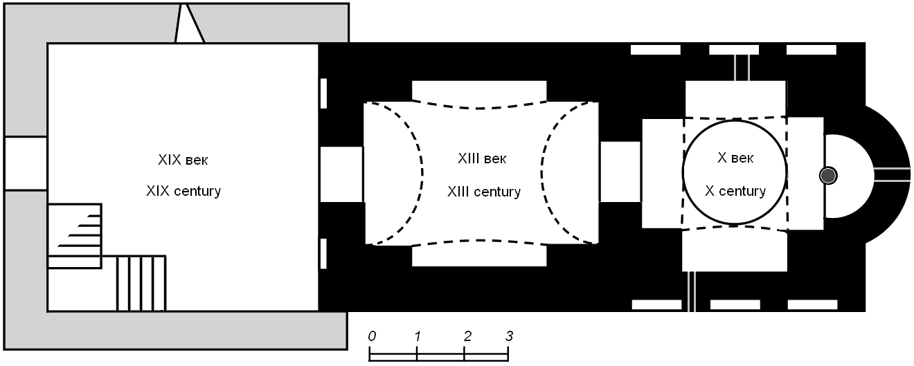 Floor plan of the Boyana Church, Sofia, Bulgaria